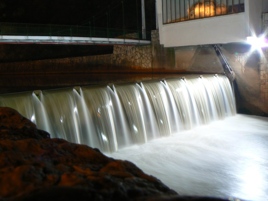 this picture was taken with a long exposure, filming the small waterfall ending a sort of an accumulation on the river Miljetska, near the old town in Sarajevo.